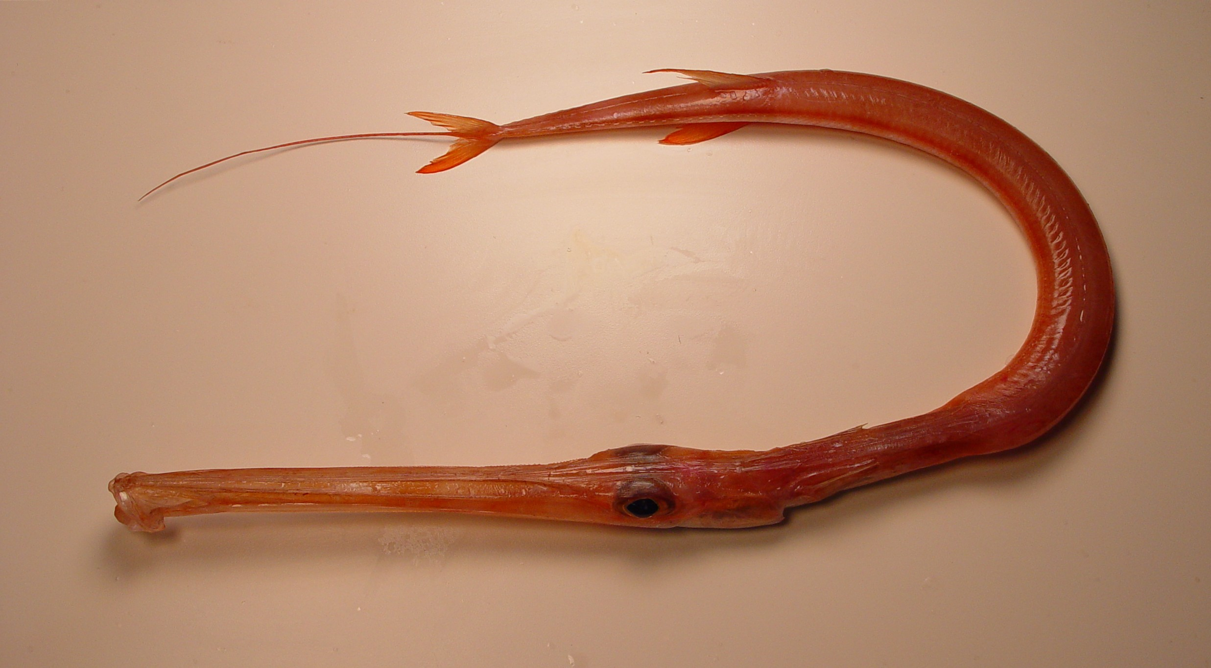 Fistularia petimba from the Gulf of Mexico